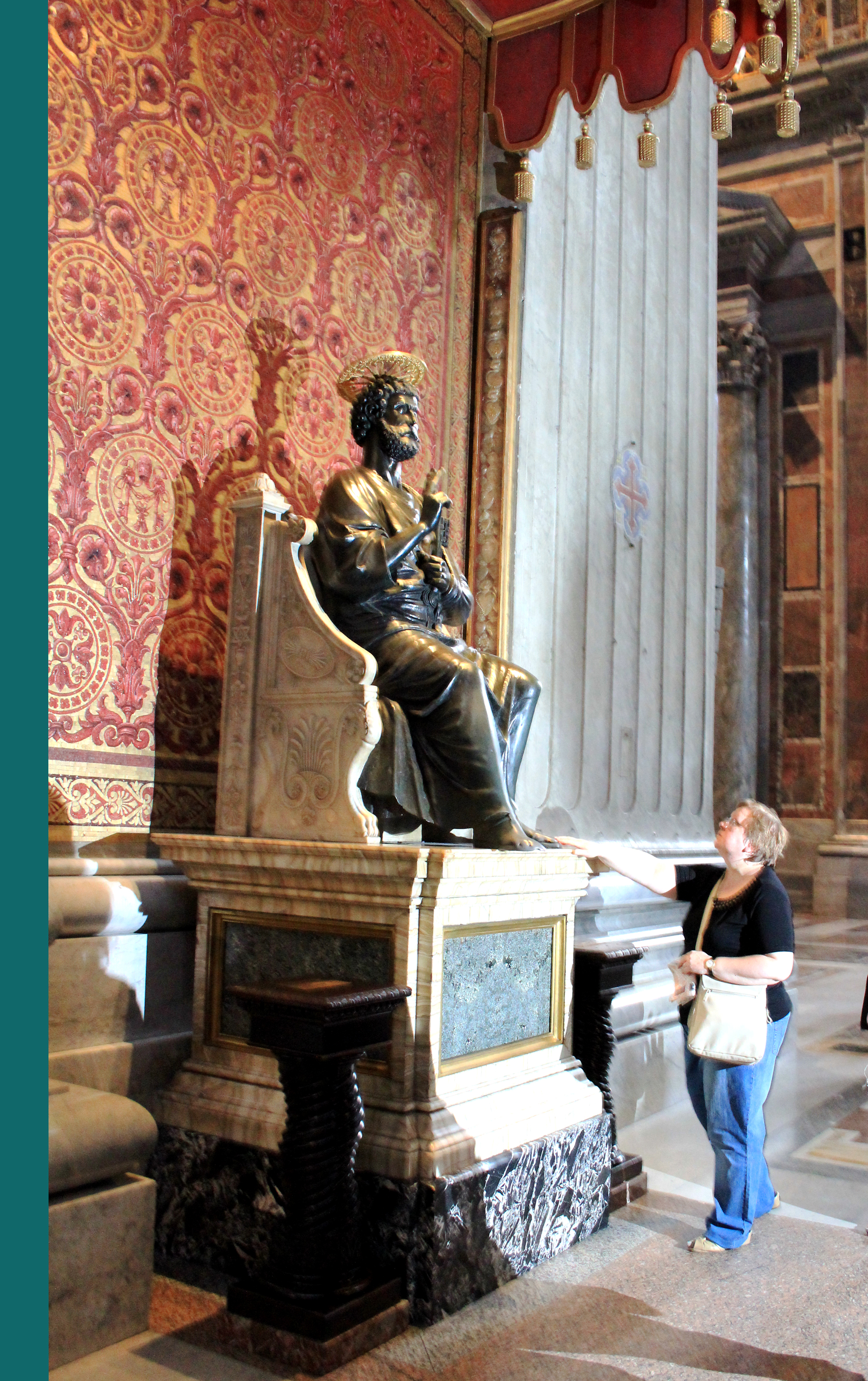 Interior of St. Peter's Basilica in Vatican City, Rome